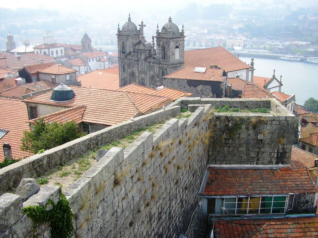 "Muralhas Fernandinas", medieval city walls in Porto, Portugal.